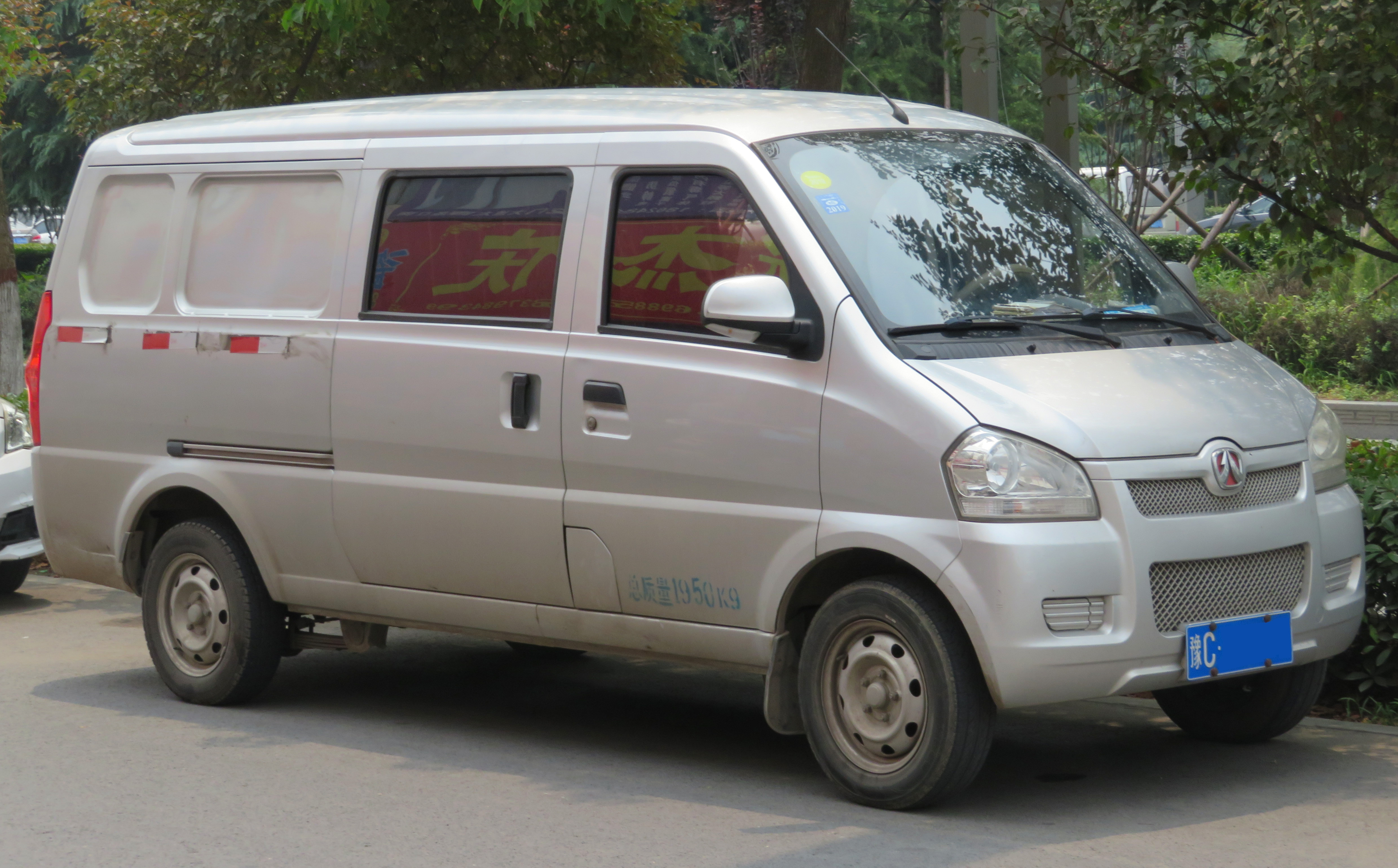 A Weiwang (威旺) 307 Extended panel van photographed in Luoyang, Henan province, China